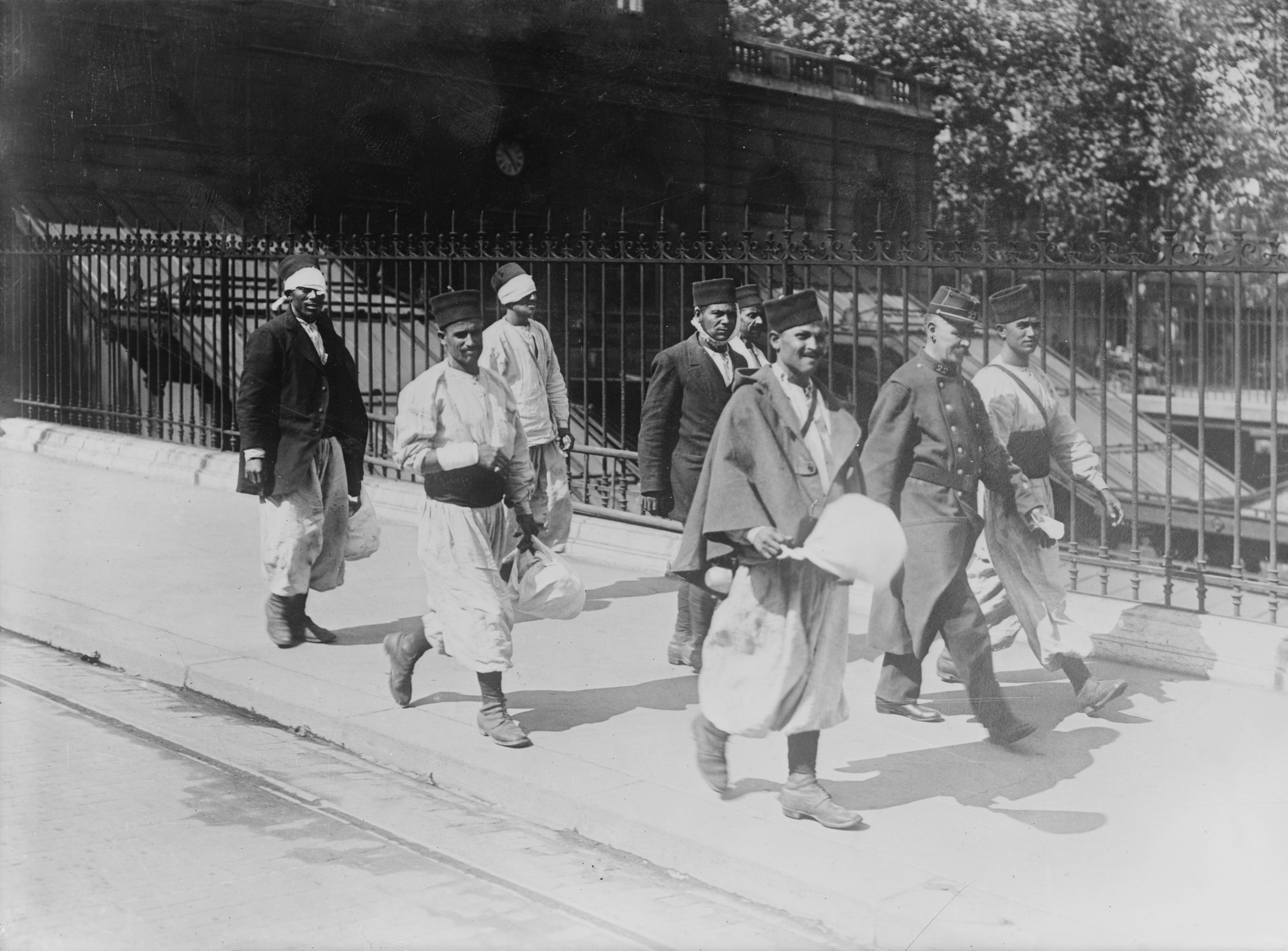 Turcos, wounded at Charleroi, in Paris Photograph shows Algerian tirailleurs (infantry soldiers) in Paris, France during World War I.